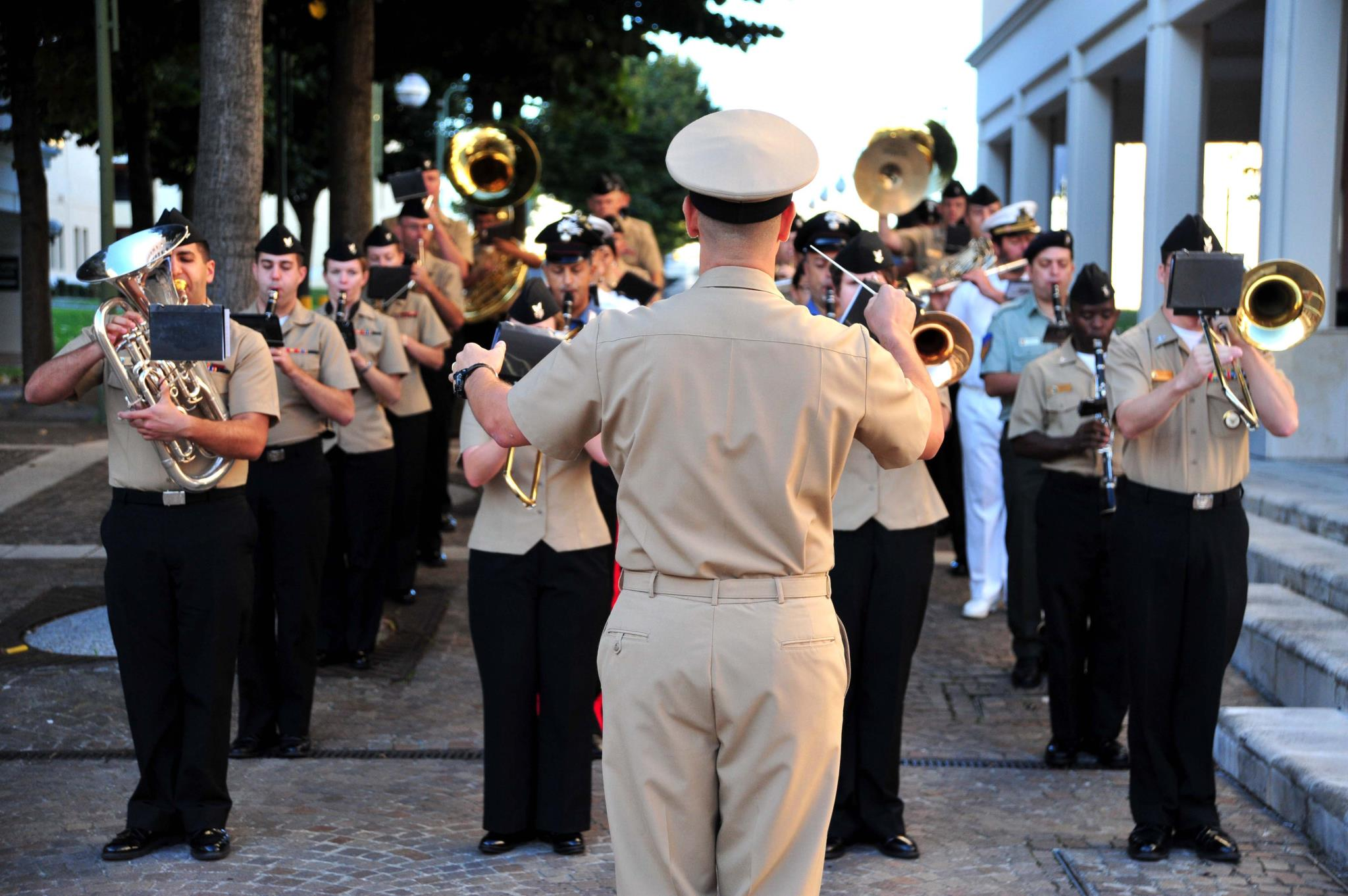 Chief Musician Luis Lebron leads the U.S. Naval Forces Europe Band during a ceremony at Naval Support Activity Naples, Italy, marking National POW/MIA Recognition Day. National POW/MIA Recognition Day is held annually throughout the United States in honor of America's military men and women who have been captured or are missing as a result of America's conflicts. (U.S. Navy photo by Mass Communication Specialist 1st Class Jack Georges/Released)